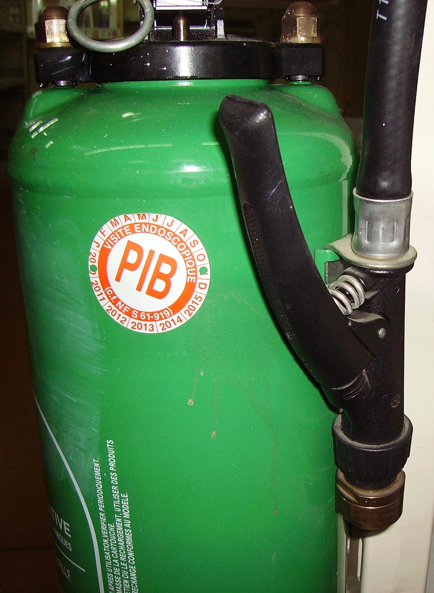 Portable safety shower: hose and diffuser. Certification label of the periodic endoscopic visit.